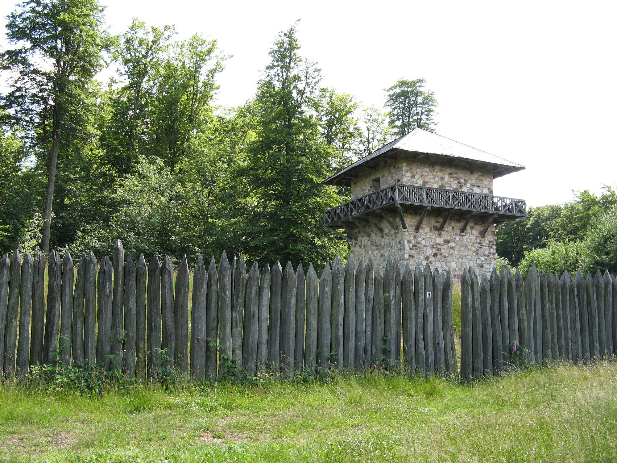 Reconstructed Limes watch tower, near Kastell Zugmantel, Taunus